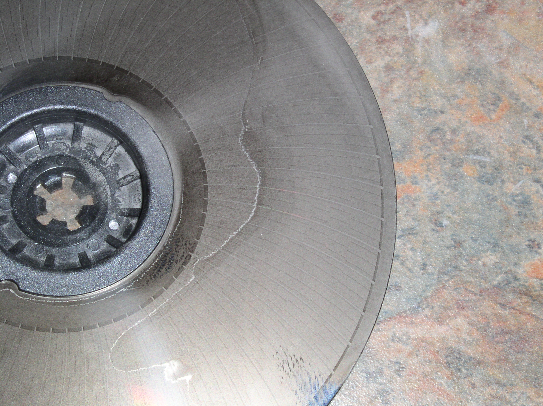 Picture of the platter of an Iomega jaz drive after spraying it with MagView. Magview is a liquid with tiny Ferrite particles that will adhere to magnetic tracks. As you can see in the picture, the magnetic tracks are clearly visible.